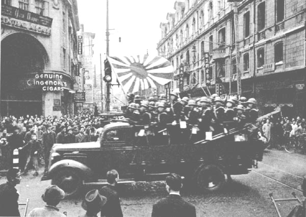 Landing force going to the Nanking Road. It was taken at the crossing point between Nanking East Road (南京东路) and Szechuan Middle Road (四川中路) in 12 December 1941.